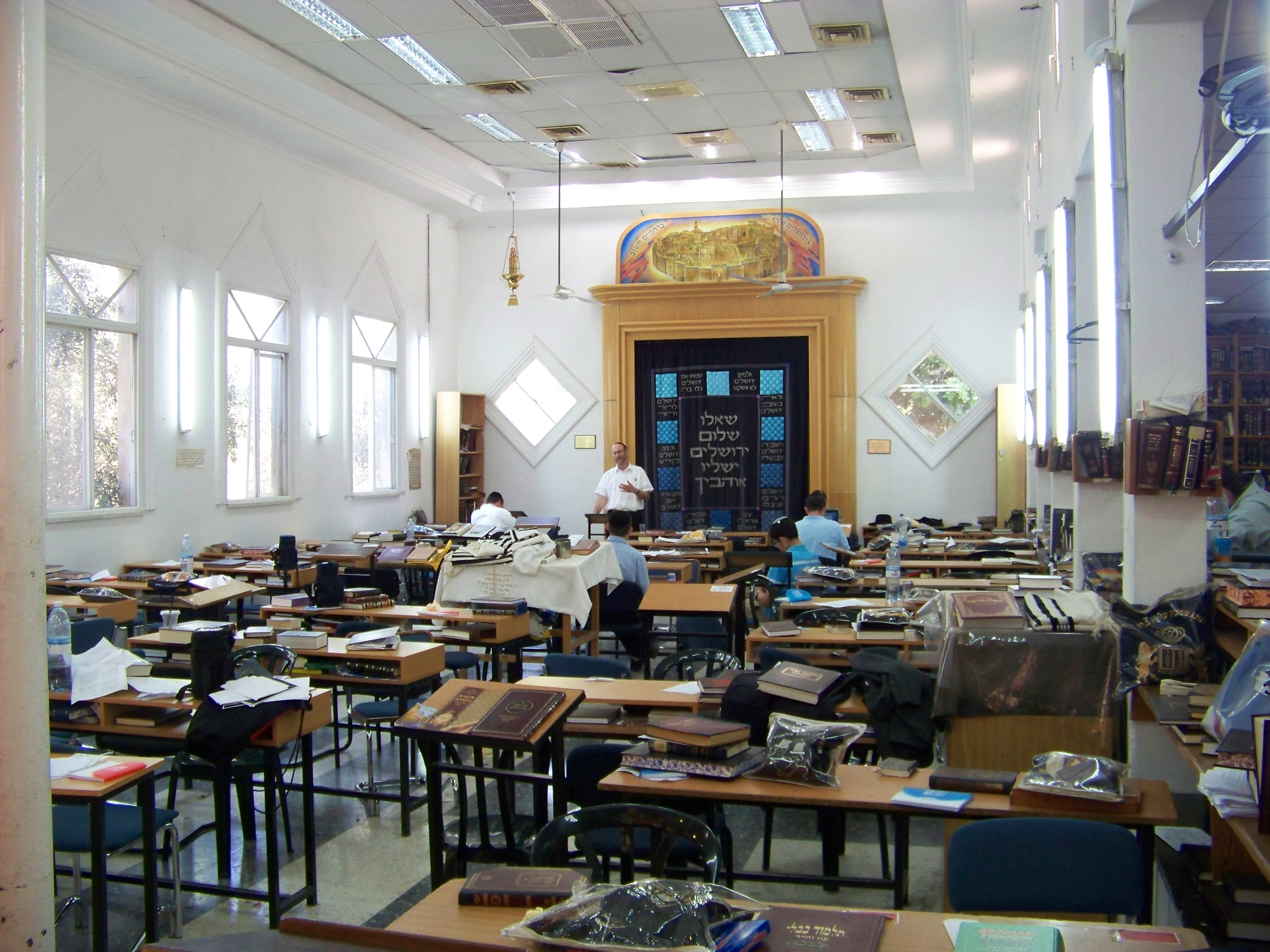 The beit midrash of Yeshivat Ohr Yerushalayim